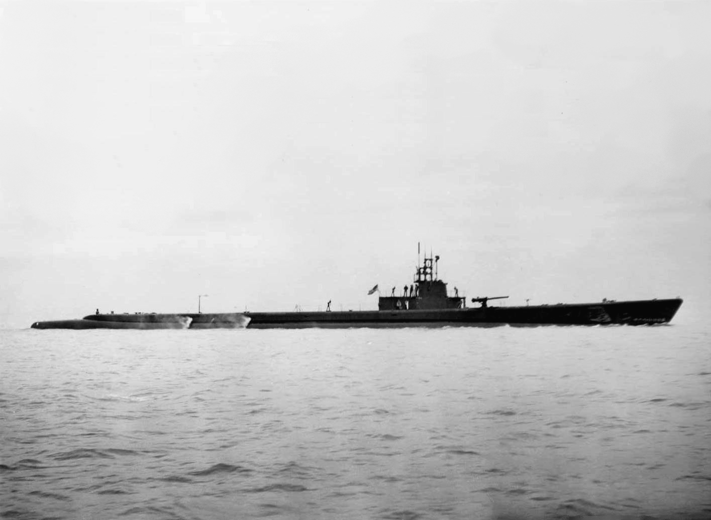 The U.S. Navy Gato-class submarine USS Barb (SS-220) at Mare Island Naval Shipyard, California (USA), on 29 January 1944. She was in overhaul at the shipyard from 9 December 1943 to 30 January 1944.